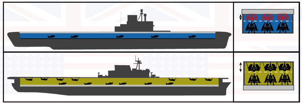 Armored vs unarmored flight decks employed by US and UK carriers during WWII. Top: Armored. Bottom: Unarrmored